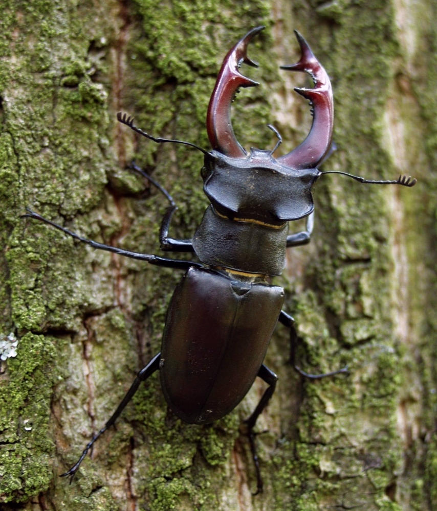 Lucanus cervus, Csapod, Hungary